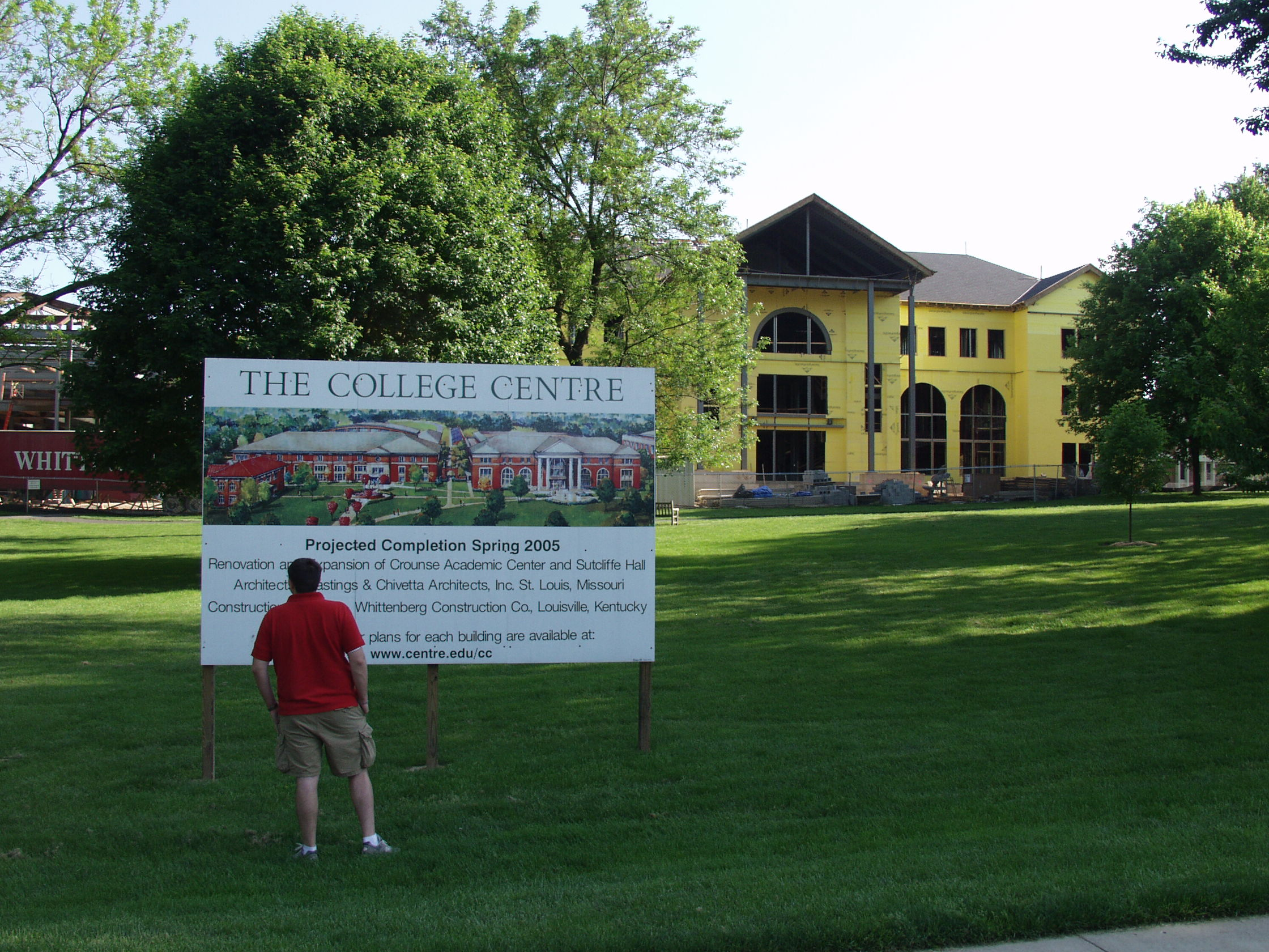 Crounse Hall, Centre College.